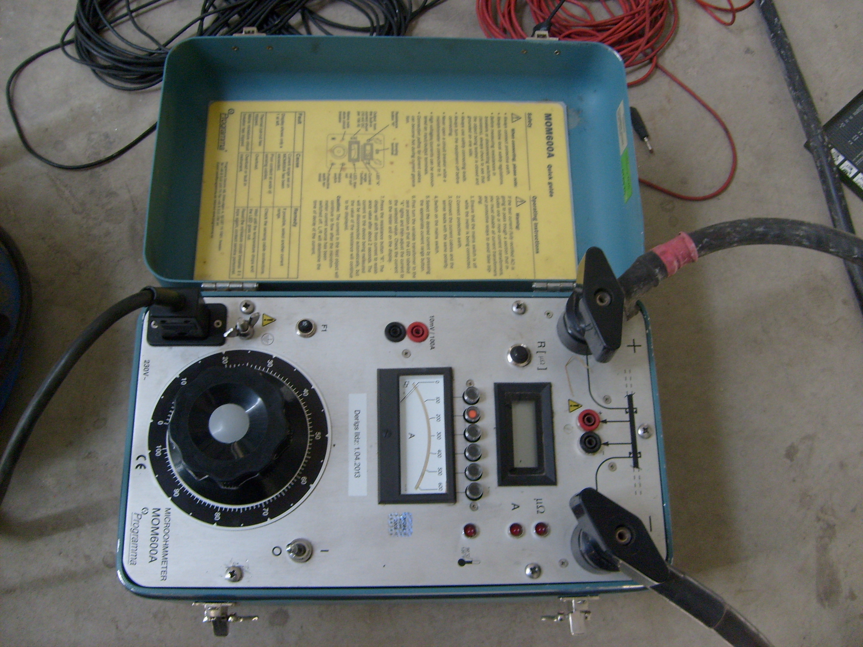 Microohmmeter MOM600A